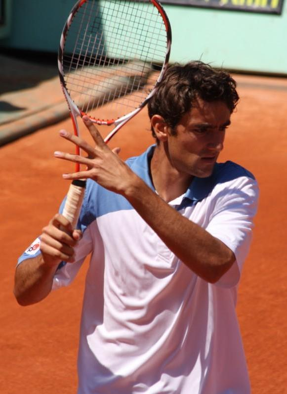 Marin Čilić at 2009 Roland Garros, Paris, France